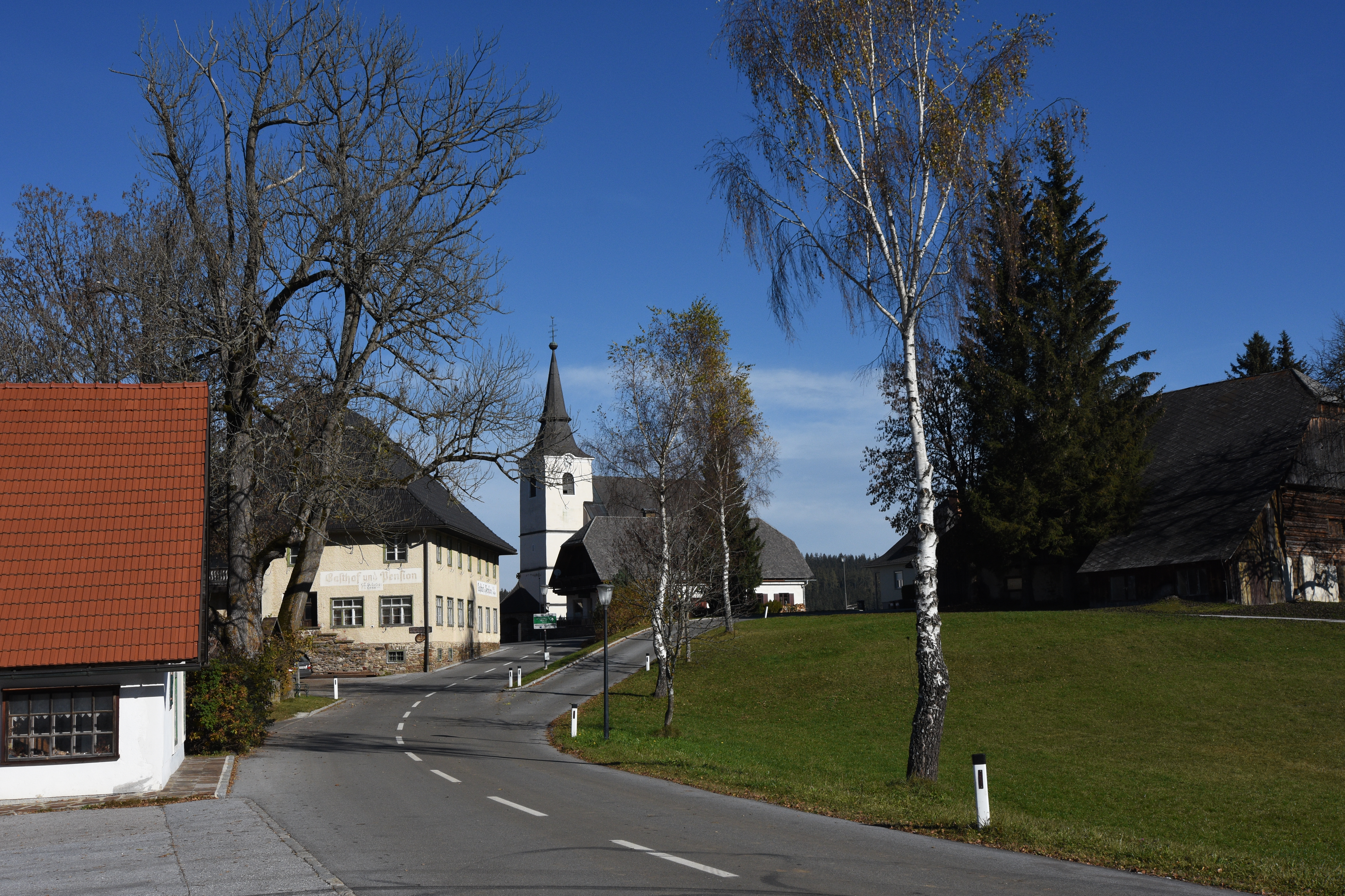 Modriach